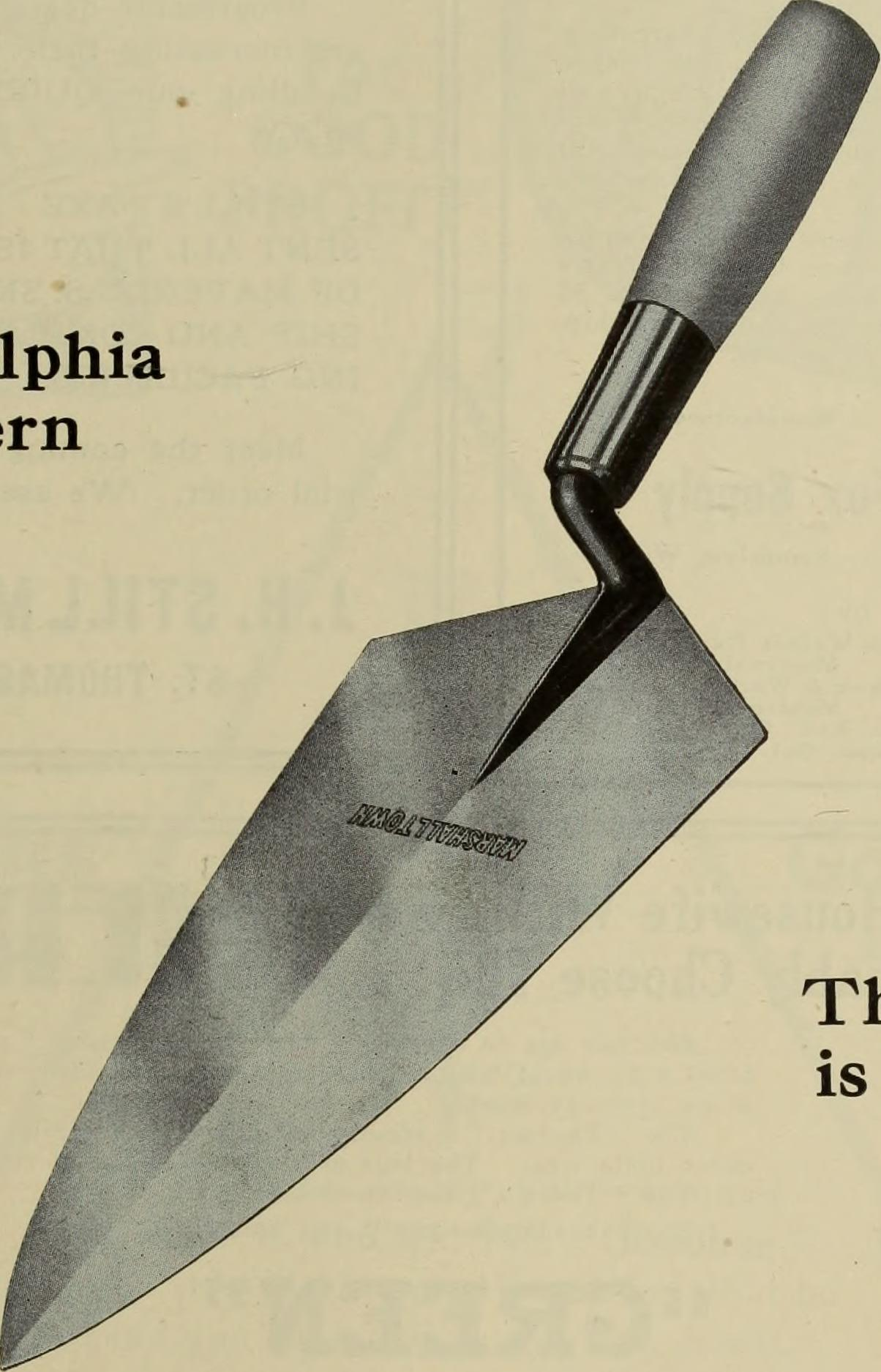 Title: Hardware merchandising August-October 1912 Year: 1912 (1910s) Authors: Subjects: Hardware industry Hardware Implements, utensils, etc Building Publisher: Toronto : Text Appearing Before Image: HARDWARE AND METAL The MARSHALLTOWN No. 19 The Trowel of Quality PhiladelphiaPattern Text Appearing After Image: The Hangis Perfect THE QUALITY IS THE BEST MANUFACTURED BY MARSHALLTOWN TROWEL COMPANY MARSHALLTOWN, IOWA 197 HARDWARE AND METAL Fox Floor Scraper No. 1 Manufactured Under Fox Patents The Fox Floor Scraper is built on the only correctprinciple, and it is guaranteed to be the best machinewith which to produce an even, smooth surface on anykind of hardwood flooring, including Georgia pine, fir,ash, etc. It does not require an expert to run it. It willnot jump, chatter or leave waves. One man with theFox Scraper can do the work of five men with handscrapers, and do it better, thus saving you the price ofthe scraper on one or two small jobs.The following knives and tools gowith each machine: Clamp Block for sharpeningknives; 4 Crown Knives (largesize); 3 Old Floor Knives (smallsize); Special Knife, substitute forsander, Burnisher, File, Wrench, OilStone, complete set of instructionsfor operating. Height of frame 4 inches, widthof frame 9 inches, length of frame14 inches, blade 3x9, weight